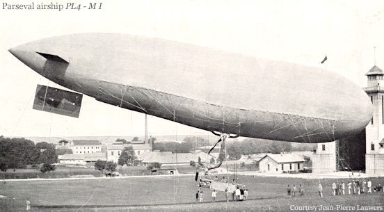 Parseval PL4 at Fischamend in Austria